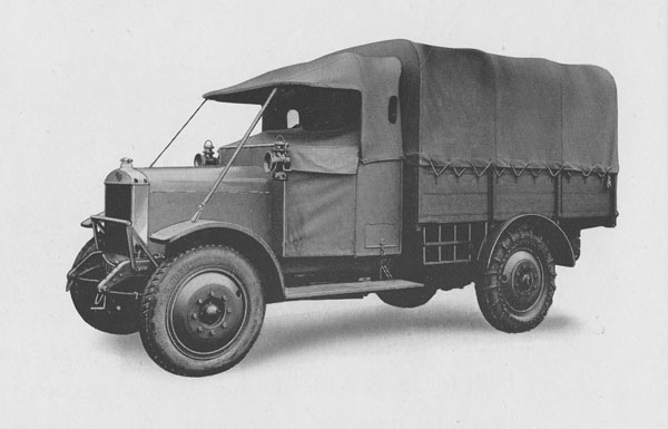 Guy's first military vehicle, produced in 1923. These were made under a Government subsidy and had pneumatic tyres.